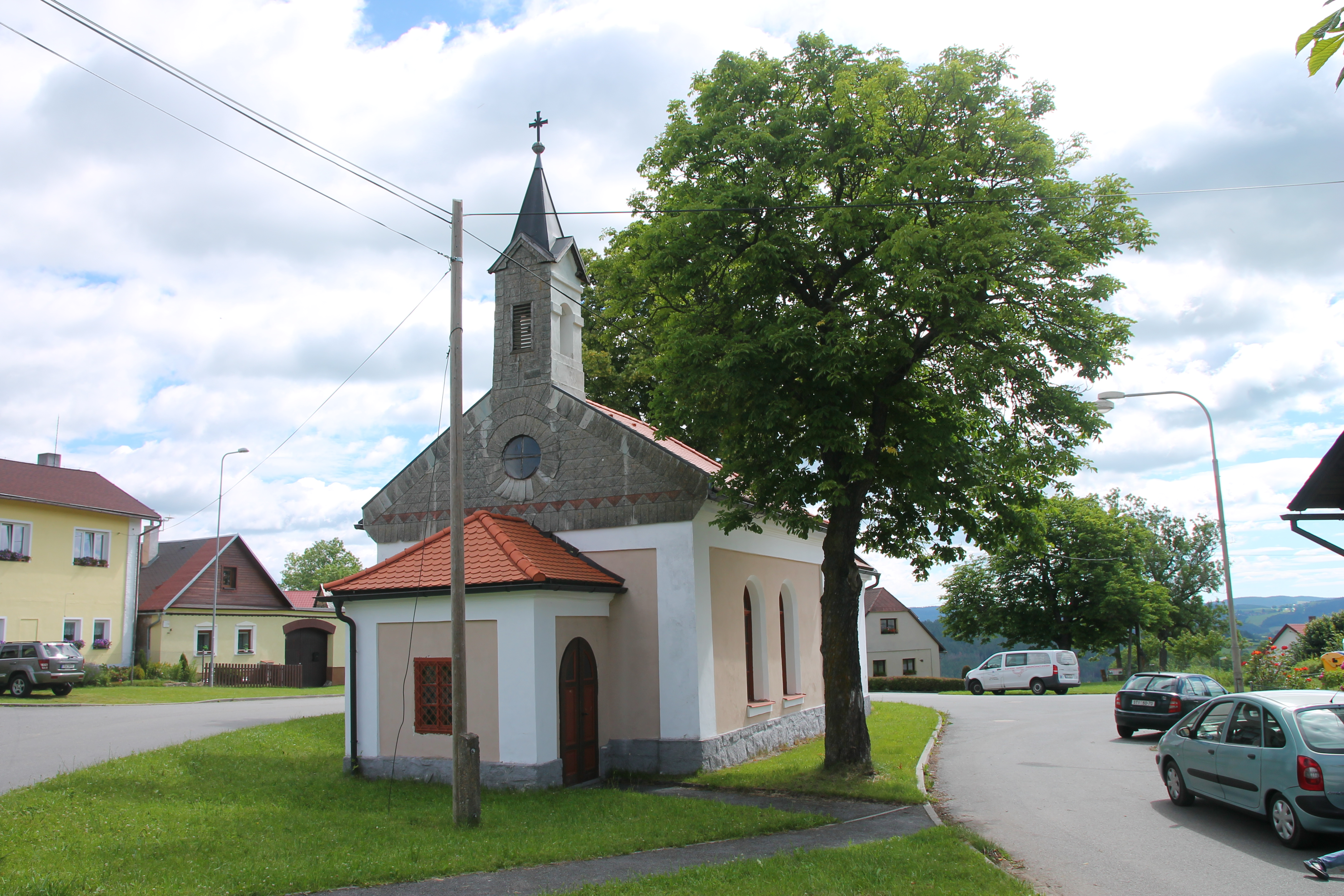 Hrabice, Vimperk